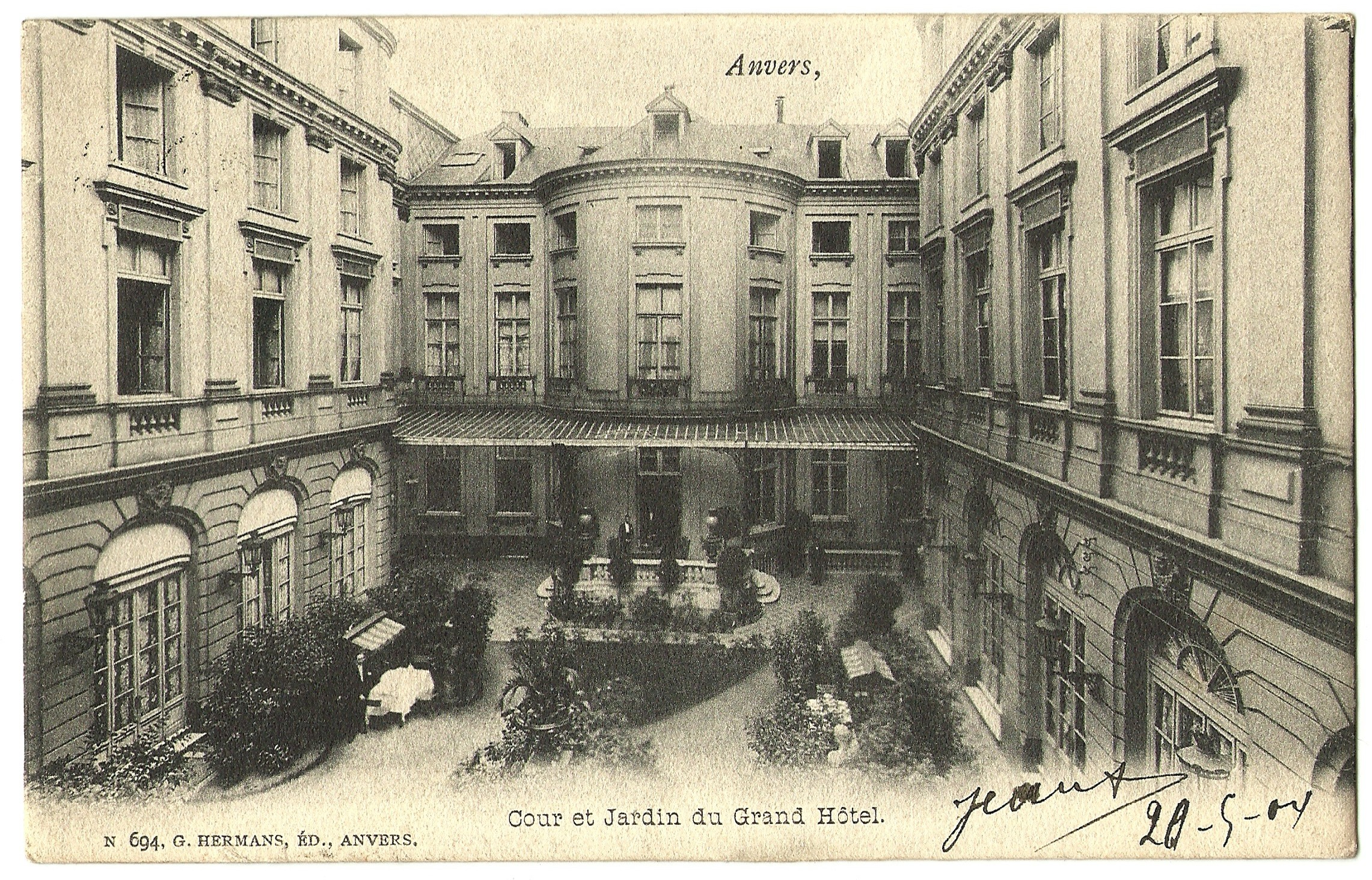 Inner courtyard Grand Hotel. Current DE Studio, Antwerp